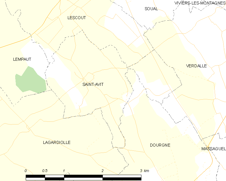 Map of French municipality Saint-Avit